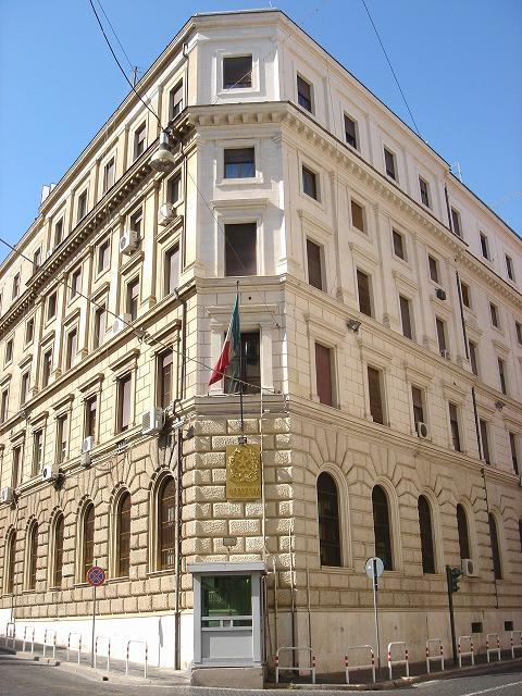 The site of the Pontifical International College Angelicum (1908 - 1932) at Via San Vitale 15, Rome - now Rome Police Headquarter (Questura)